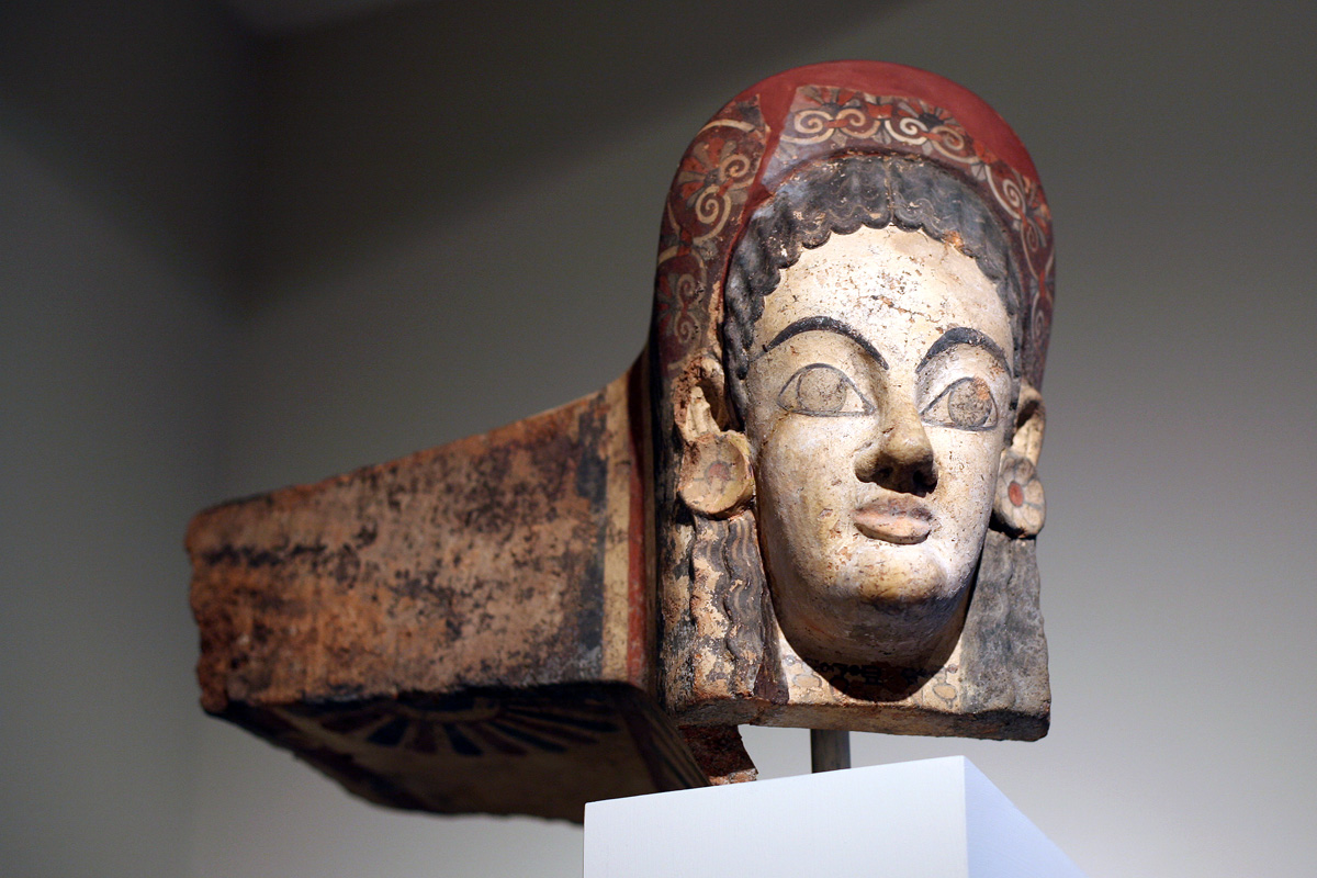 Metropolitan Museum of Art # 1997.145.26 Photographer: Katie Chao